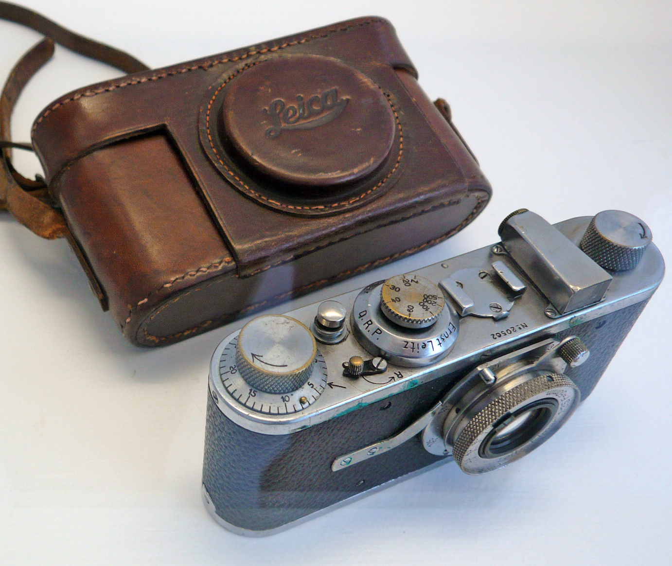 Henri Cartier-Bresson's first Leica (model Leica I)